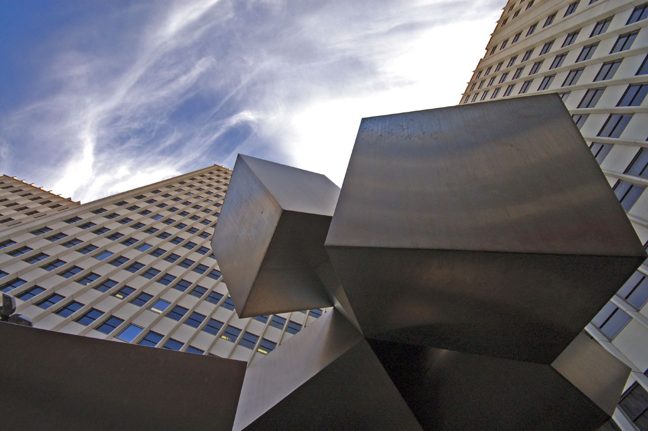 Taken in Plaza de los Cubos, Madrid, Spain. Still playing around with my new Sigma 10-20.Kinetic sculpture by George Rickey.